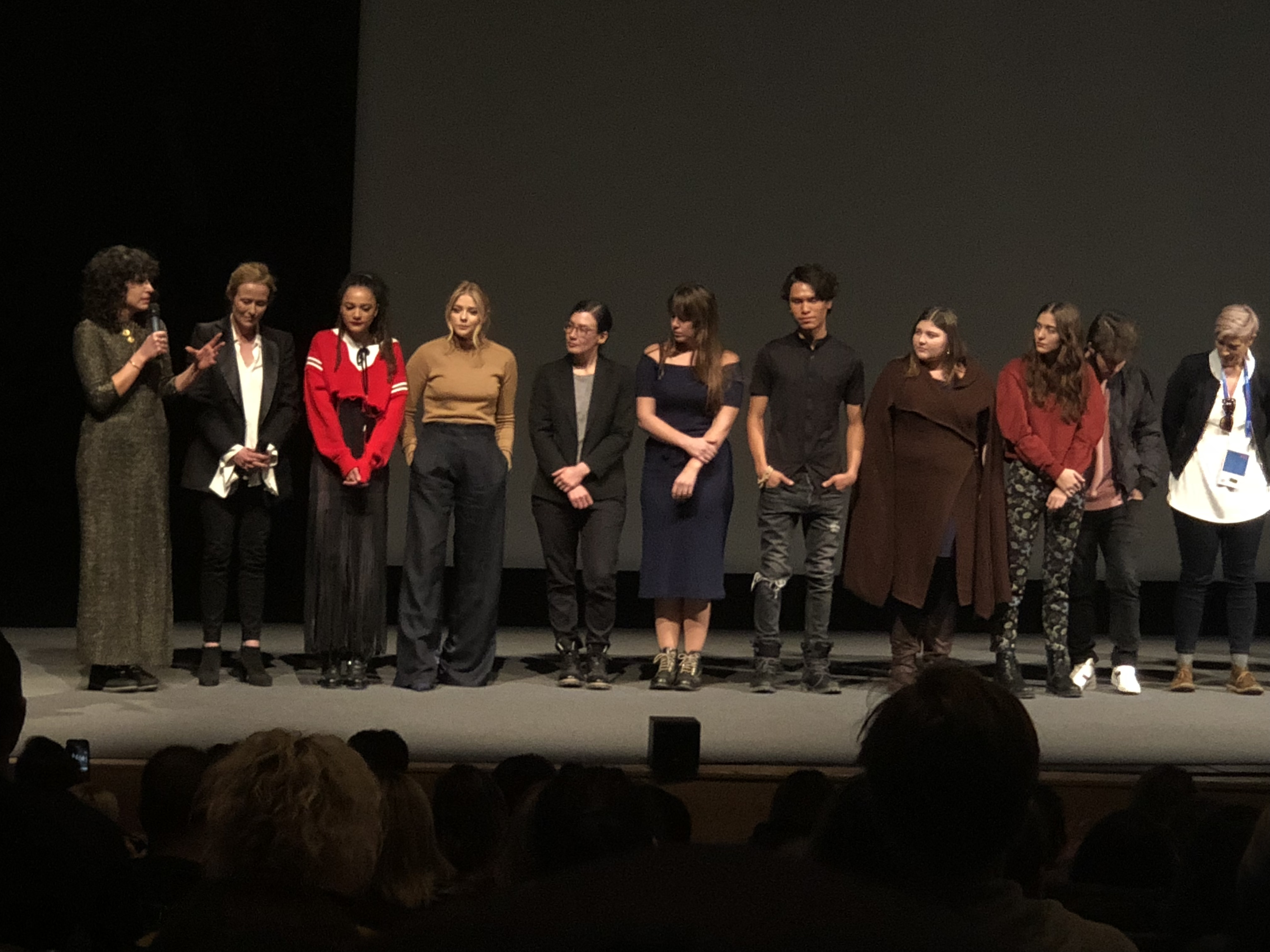 Cast of "The Miseducation of Cameron Post" at 2018 Sundance Film Festival.